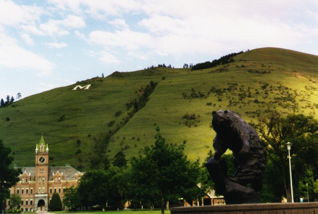 Picture of the University of Montana campus, showing Mount Sentinel with the M Logo, the Grizzly mascot, and University (Main) Hall.